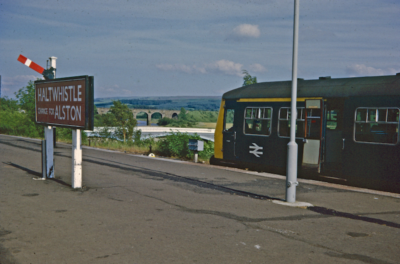 Haltwhistle station